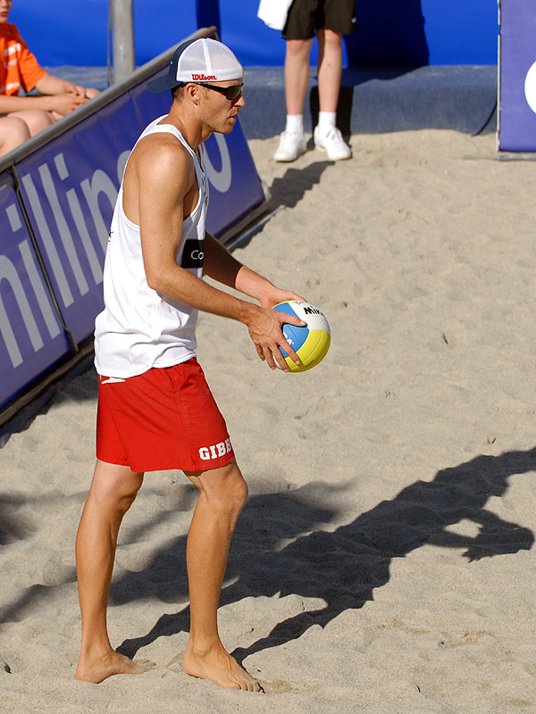 Jake Gibb preparing to serve at the World Tour Stavanger 2008.